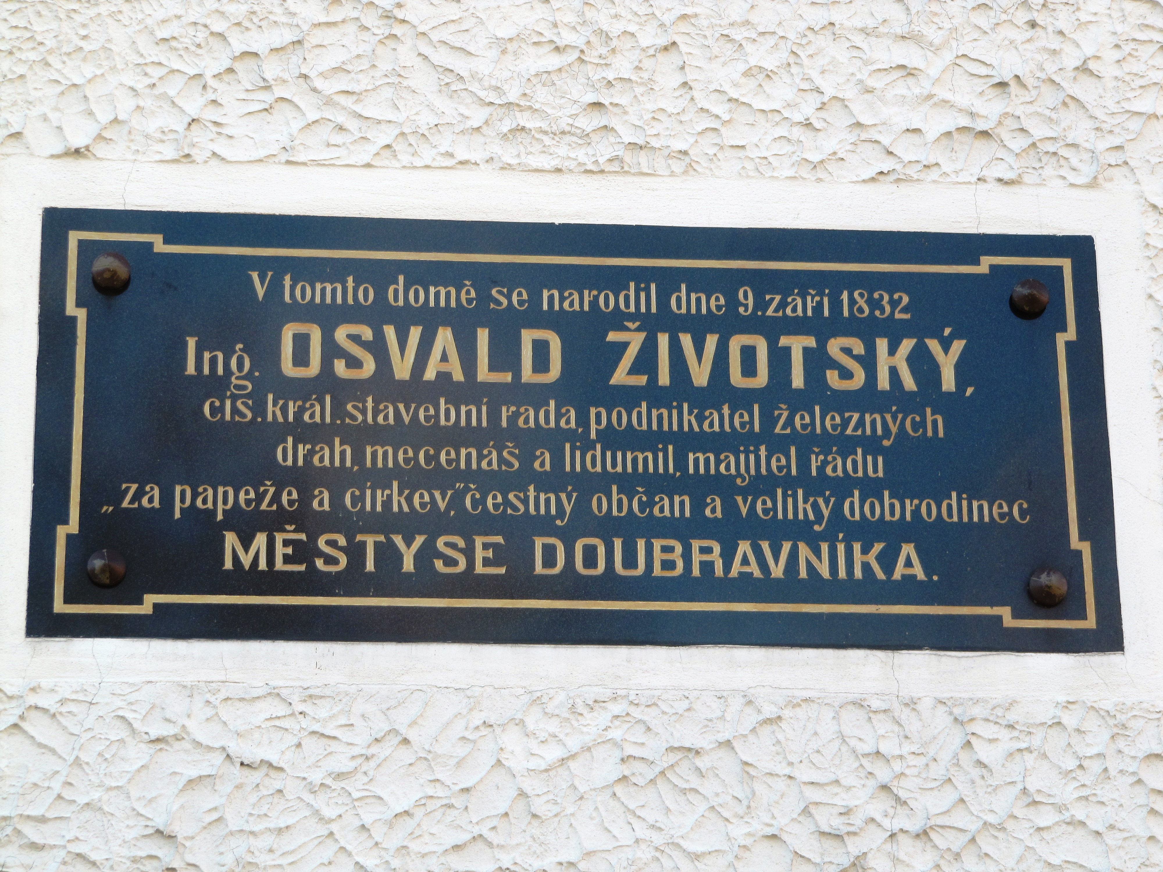 Doubravník, Brno-Country District, Czechia.